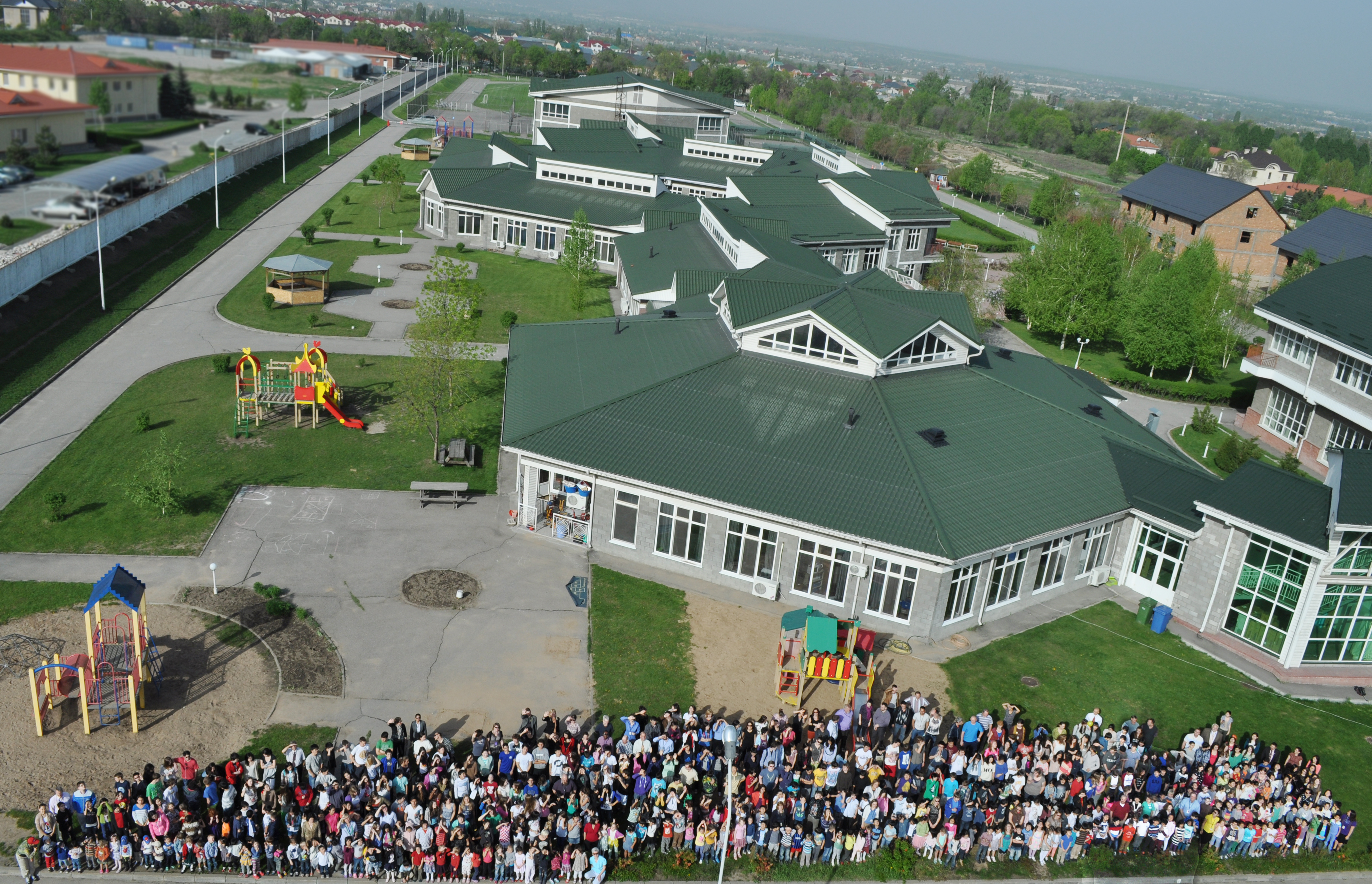 The campus of Almaty International School (2013)